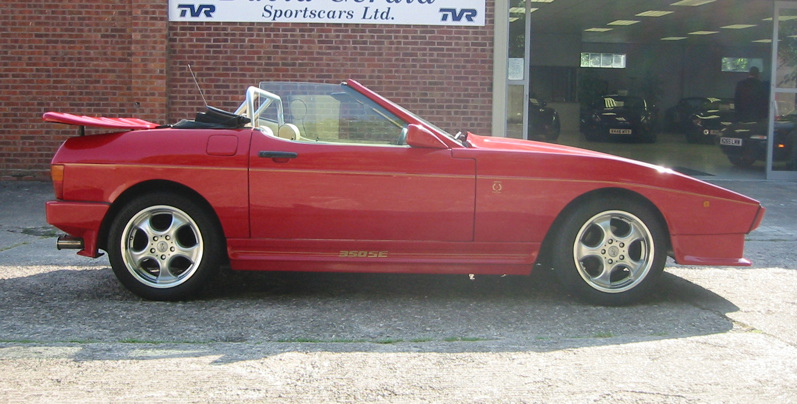 Photographer: Chris Thomas